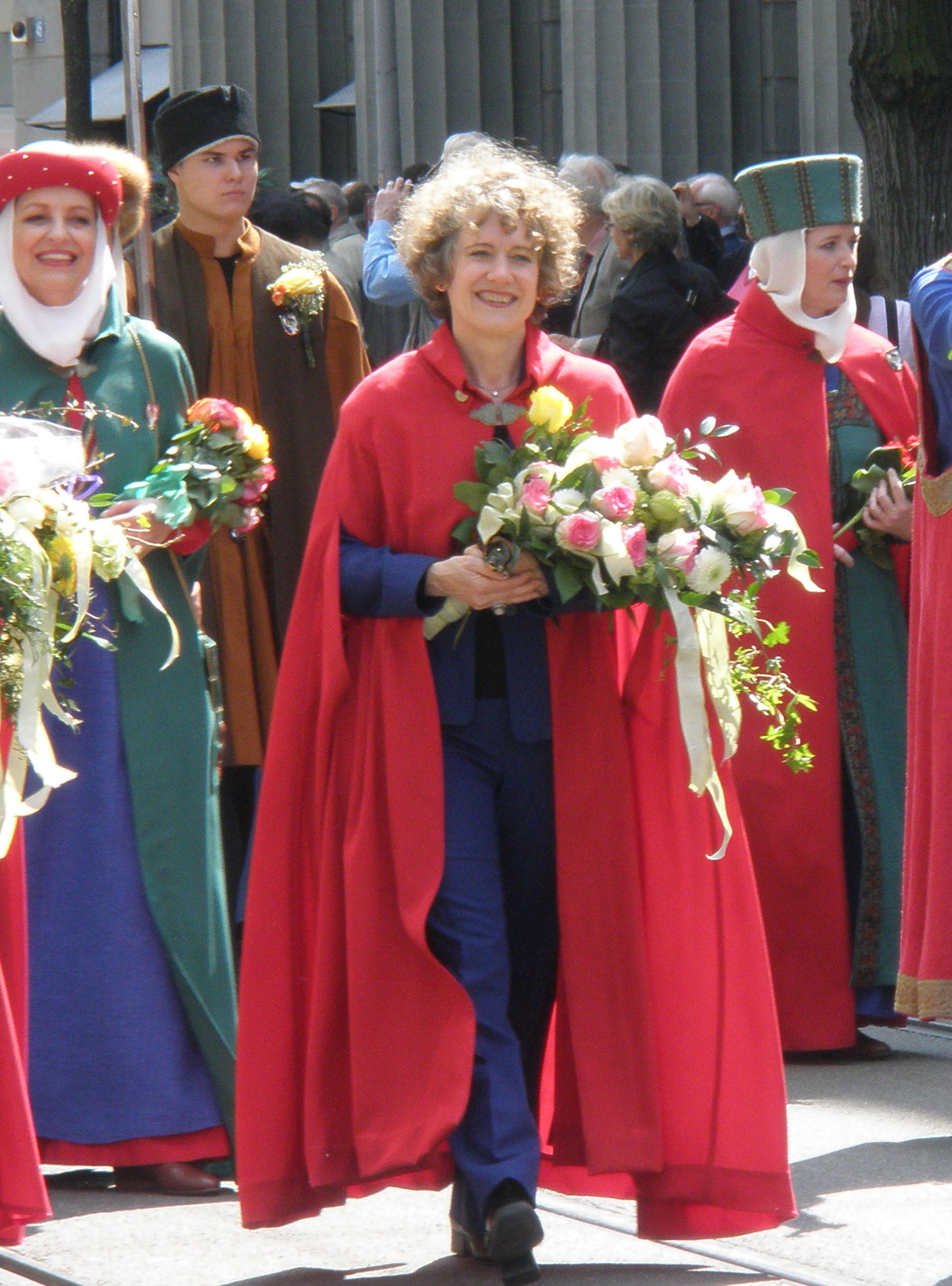 Corine Mauch, mayor of Zurich, taking part at the Sechseläuten